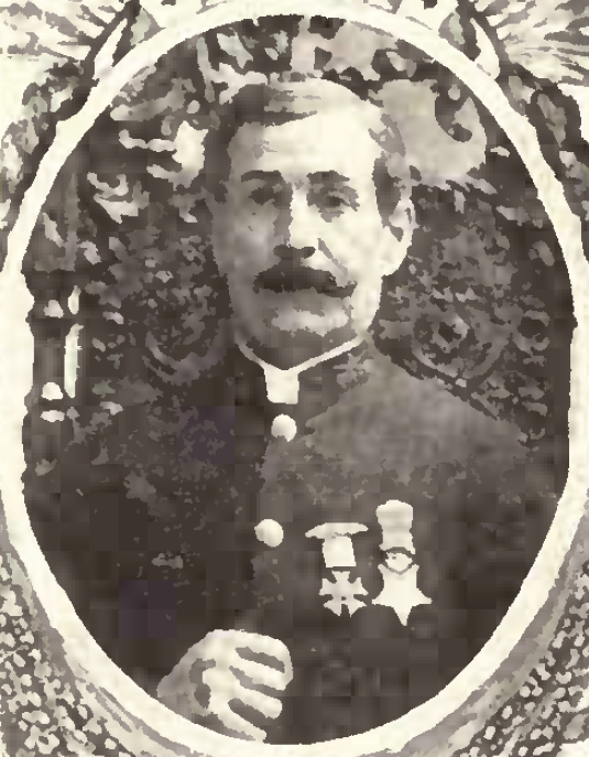 United States Army Sergeant Marcus M. Robbins of the 6th Cavalry Regiment received the Medal of Honor for his actions in the Indian Wars.